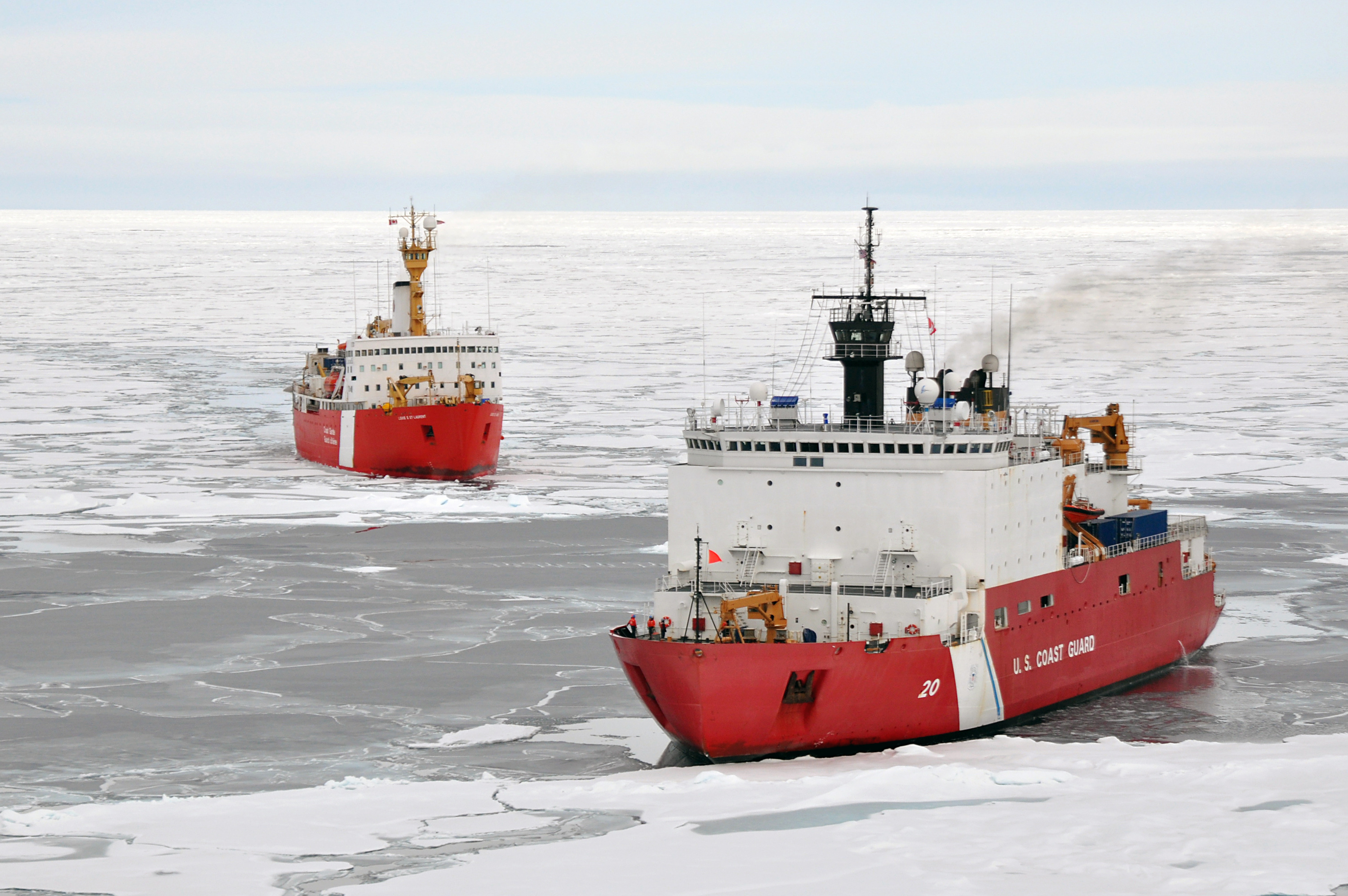 The Canadian Coast Guard Ship Louis S. St-Laurent makes an approach to the Coast Guard Cutter Healy in the Arctic Ocean, Sept. 5. The two ships are taking part in a multi-year, multi-agency Arctic survey that will help define the North American continental shelf. U.S. Coast Guard Atlantic Area